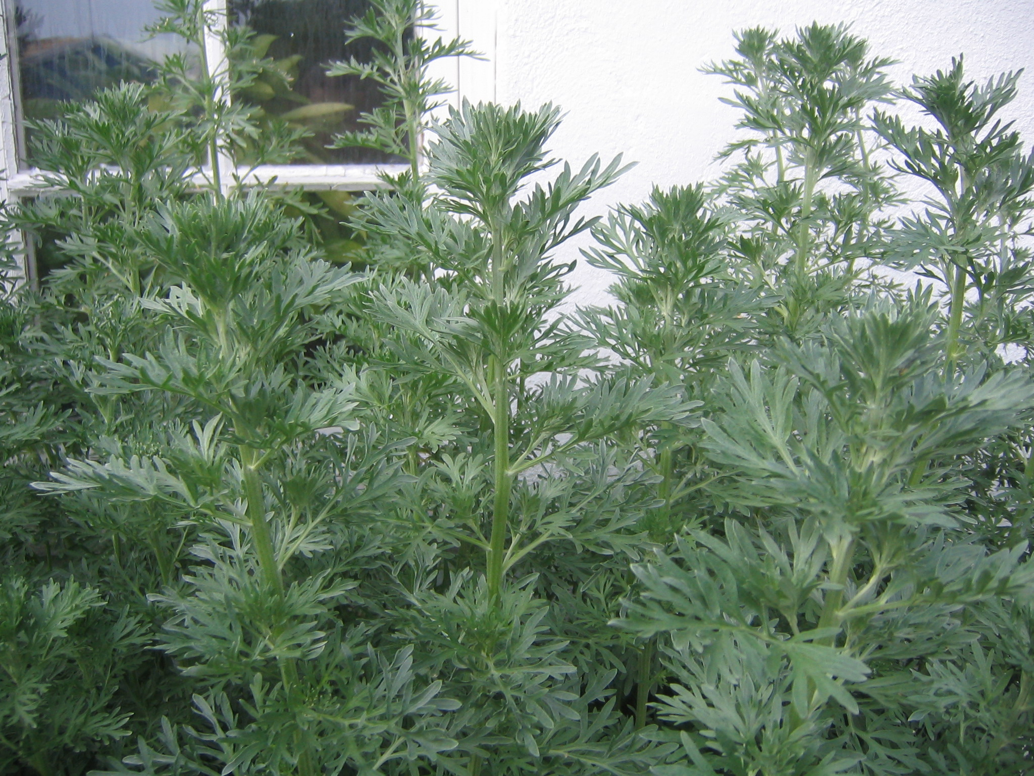 Shoots on a wormwood bush (Artemisia absinthum)